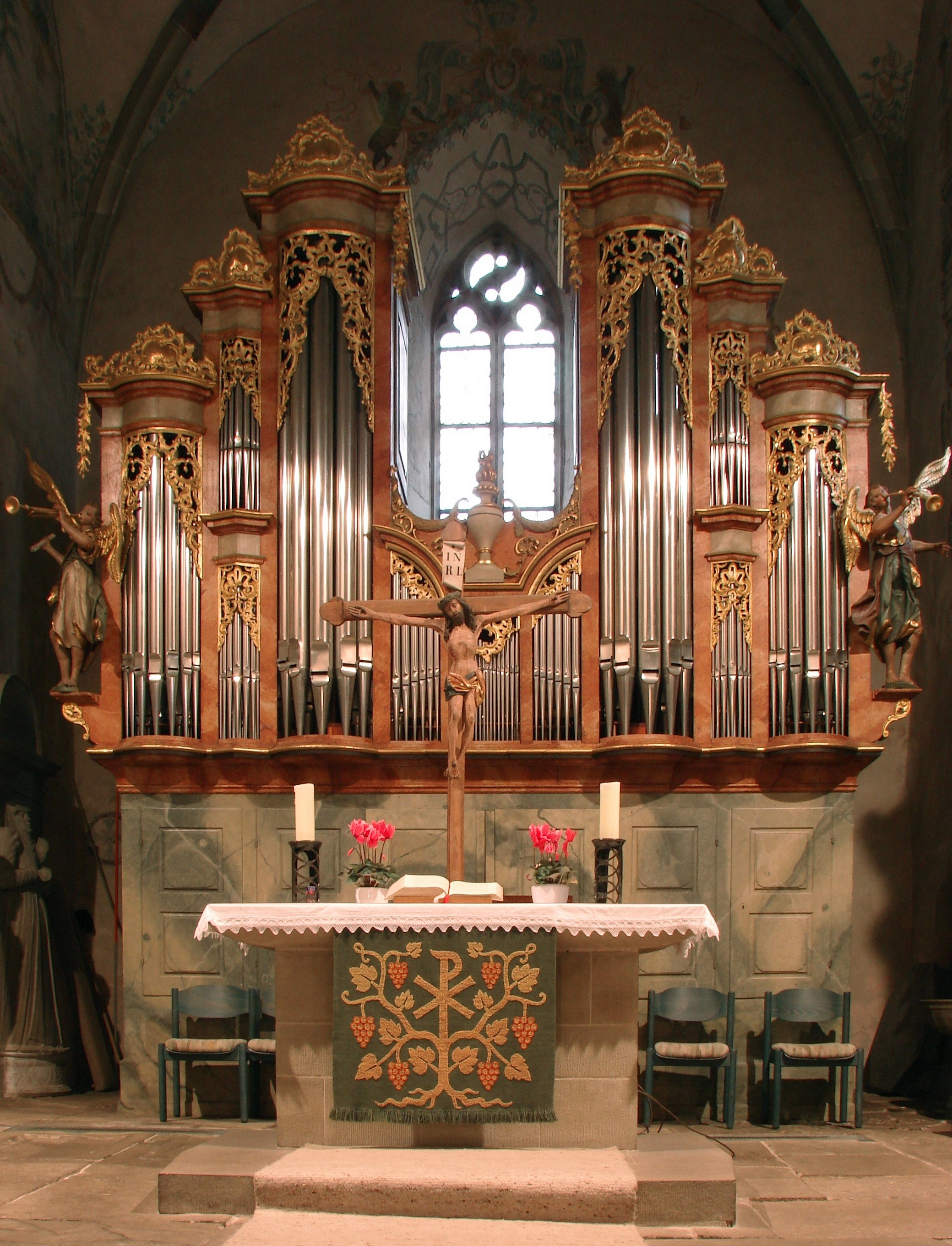 Freiberg am Neckar, baroque organ in the St. Amandus church. The organ, made by Johannes Weinmar from Bondorf, was inaugurated in 1766.